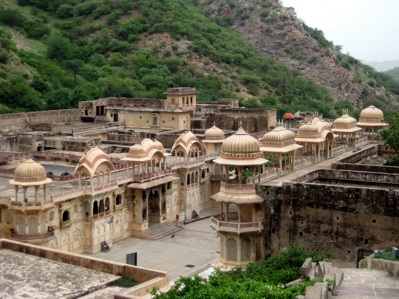 Overview of temples at Galta, near Jaipur